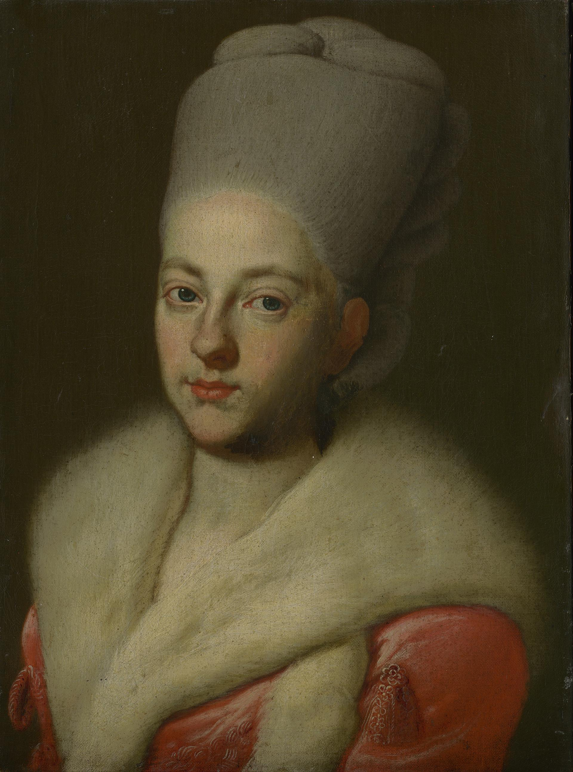 Maria Walburga von Truchsess-Waldburg-Zeil, born 1762, died 1828